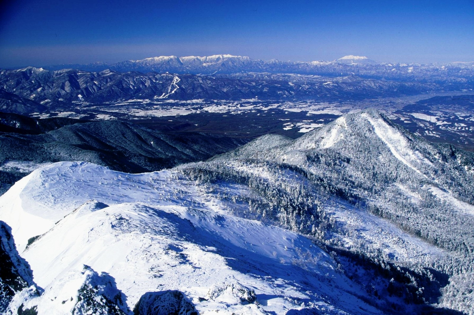 Kiso Mountains and Mount Ontake from Mount Iō